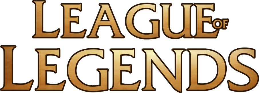 Logo of the video game